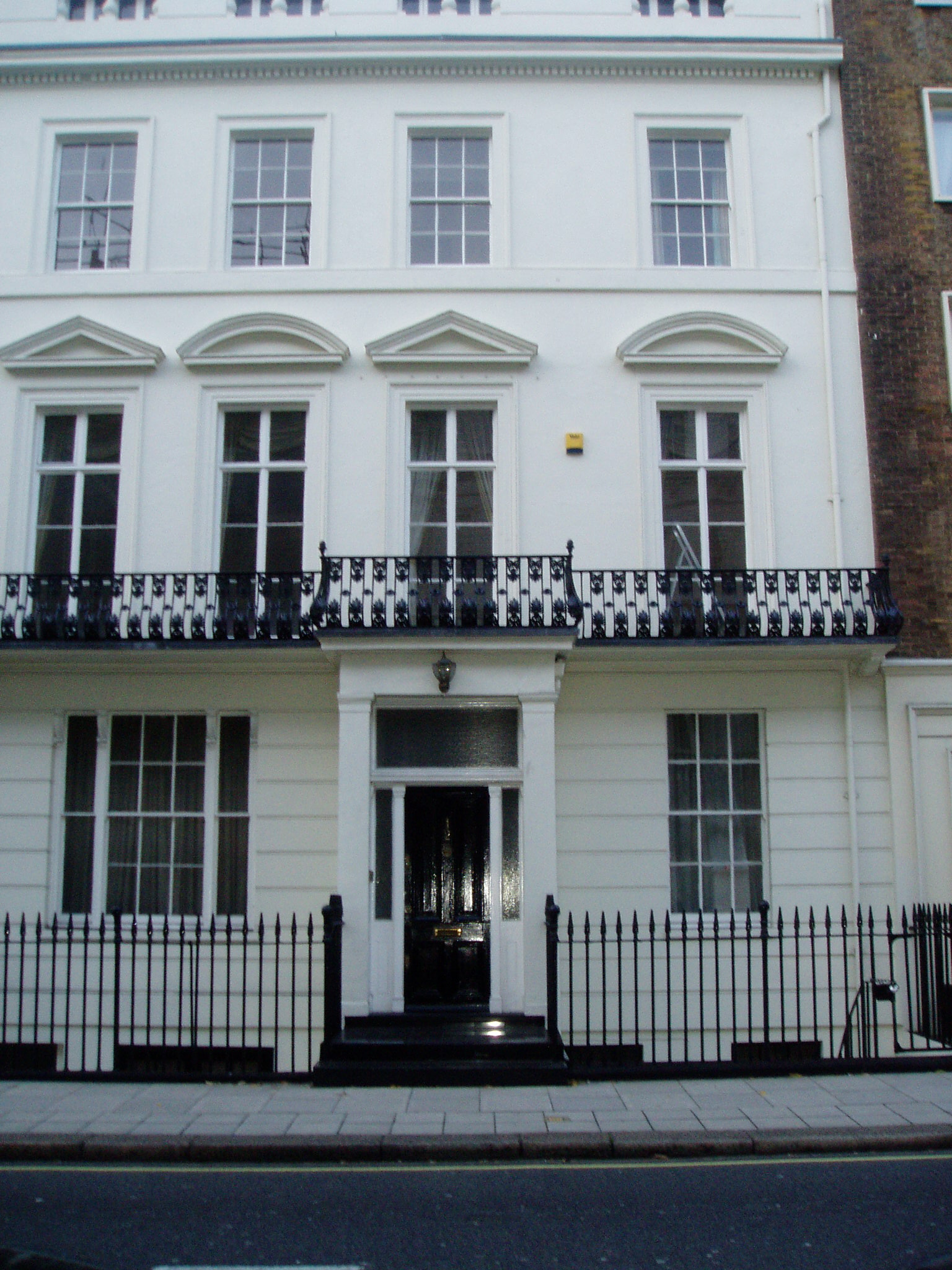 Former home of Sir Edward Louis Spears. 12 Strathearn Place, London W2 2NJ